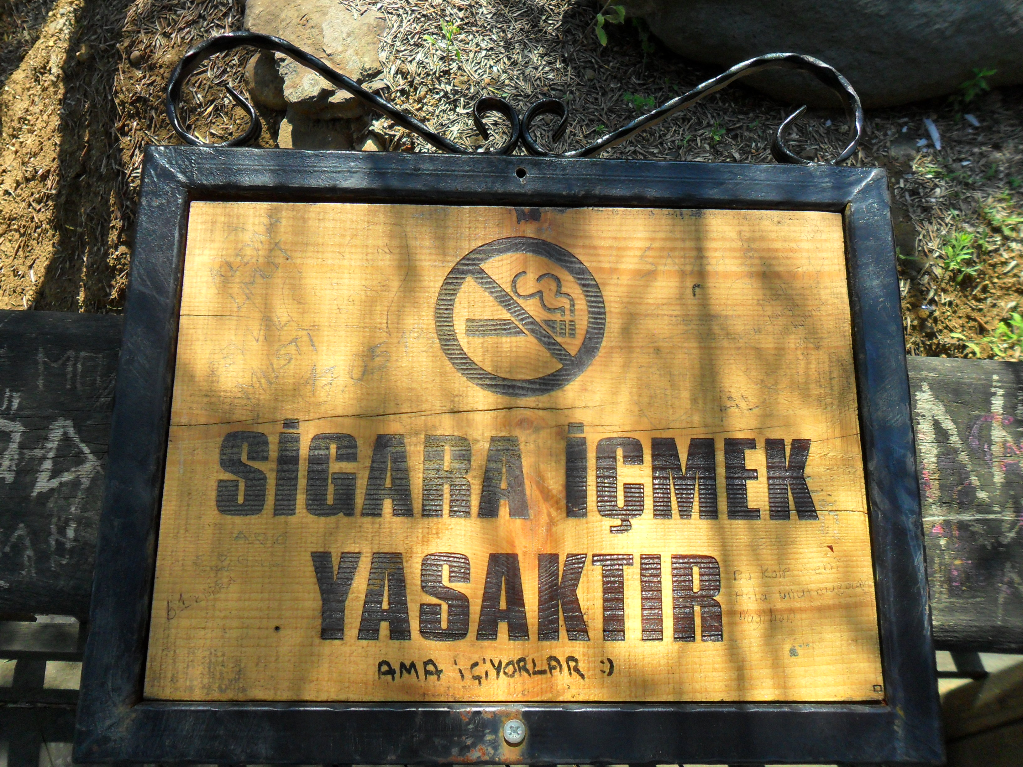 No smoking sign in Turkey. (Handwriting below: But they do... :-)